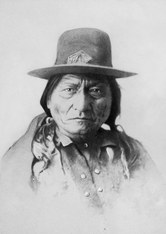 Sitting Bull, during transit from Fort Randall to Standing Rock Agency, taken in Pierre, S.D.